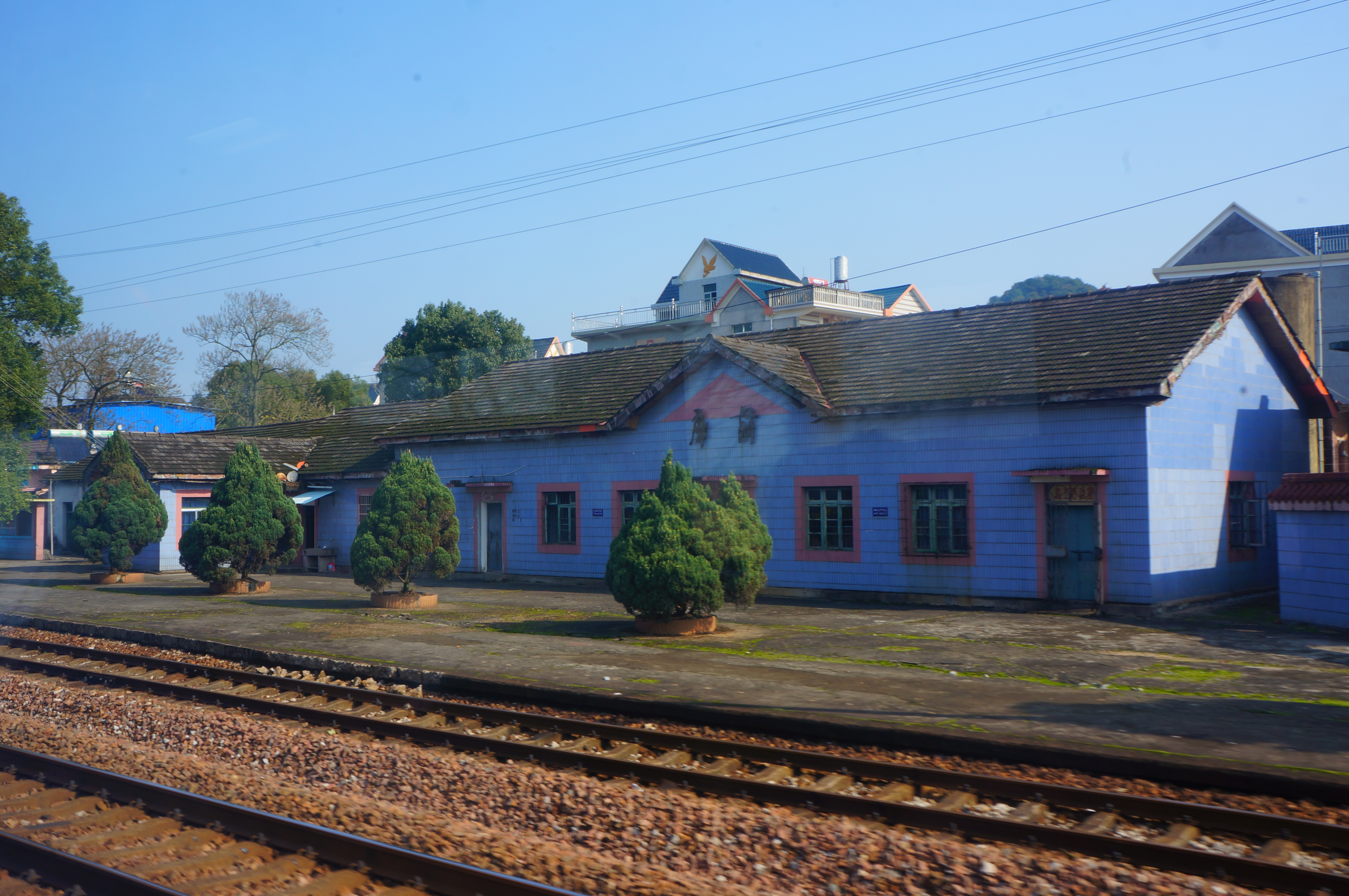 201612 Kuqian Station, beautiful small station on Anhui–Jiangxi Railway